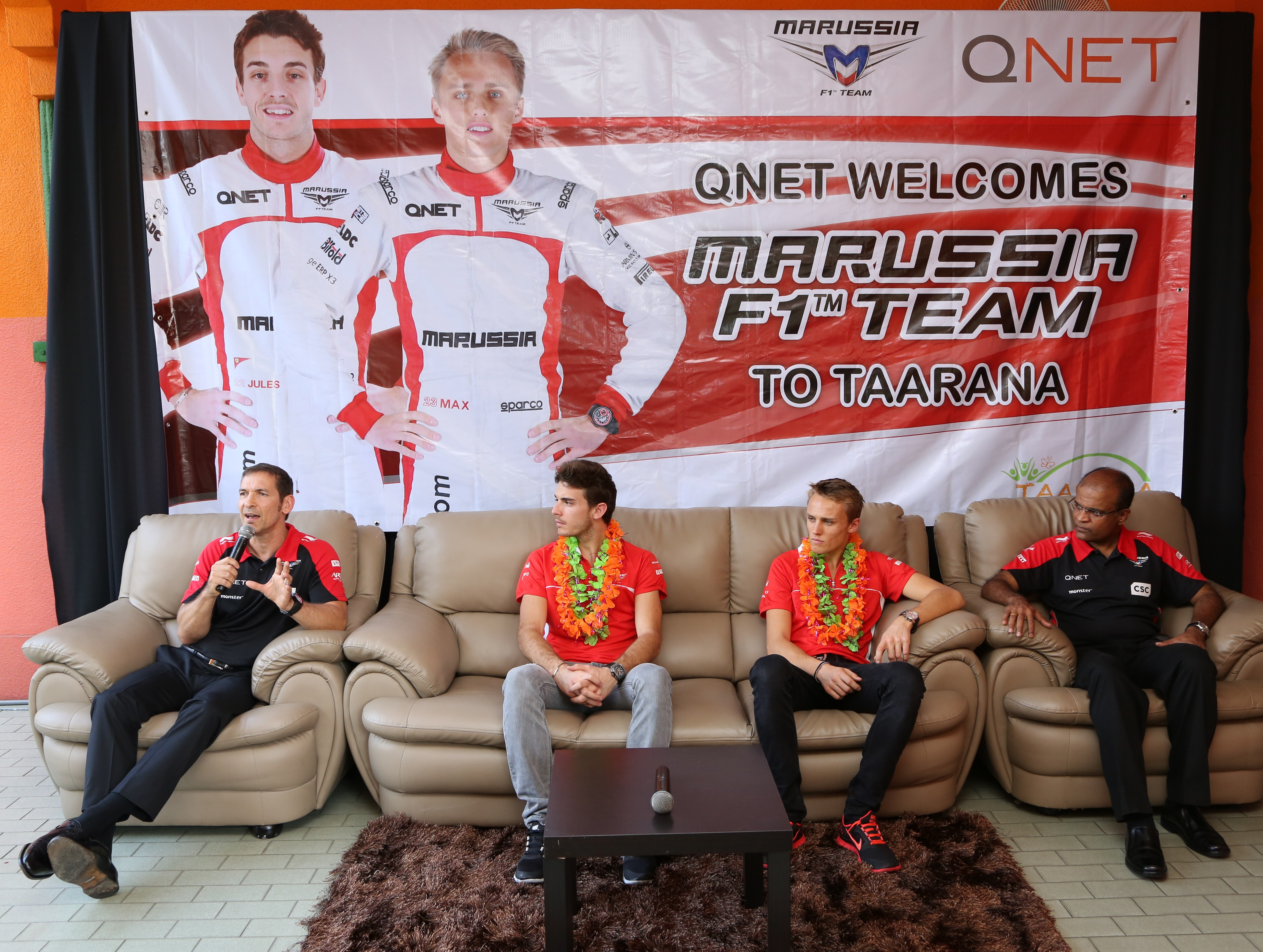 (From L to R) Joachim Steffen, Director of Research & Development, QI Group; Marussia F1 Team Drivers Jules Bianchi and Max Chilton; Stevenson Charles, QNET Regional General Manager, South-East Asia. QNET promotional event in Taarana, Malaysia.